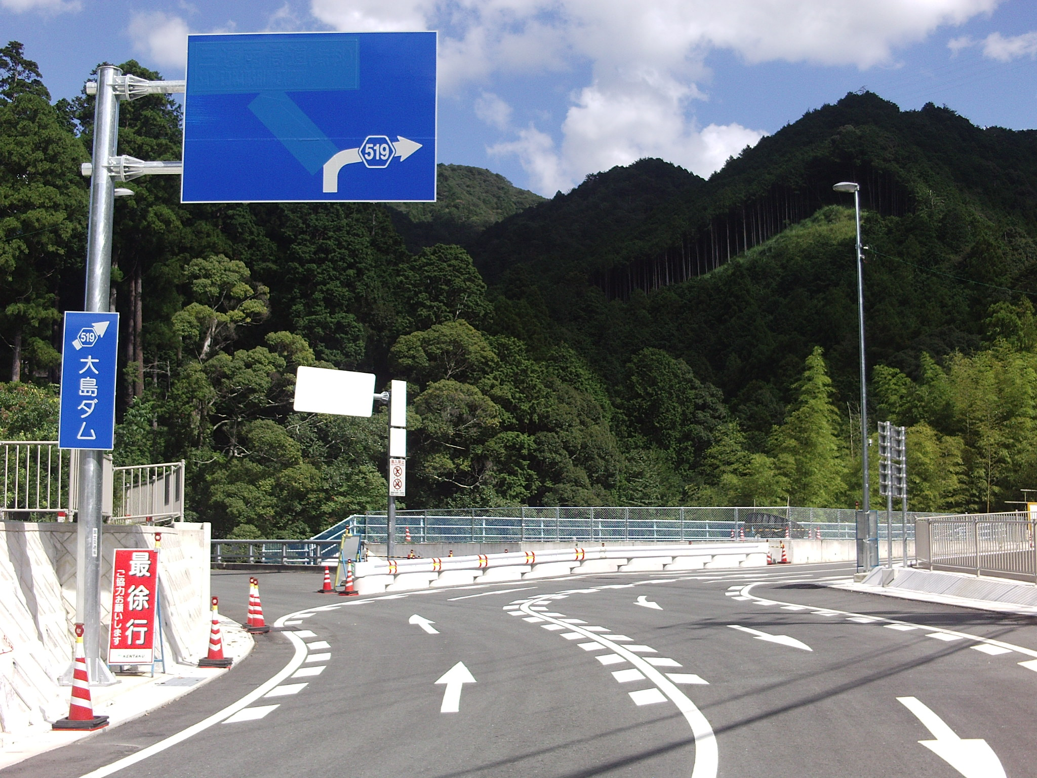 Aichi prefectural road No.519 in Myogo, Shinshiro, Aichi.